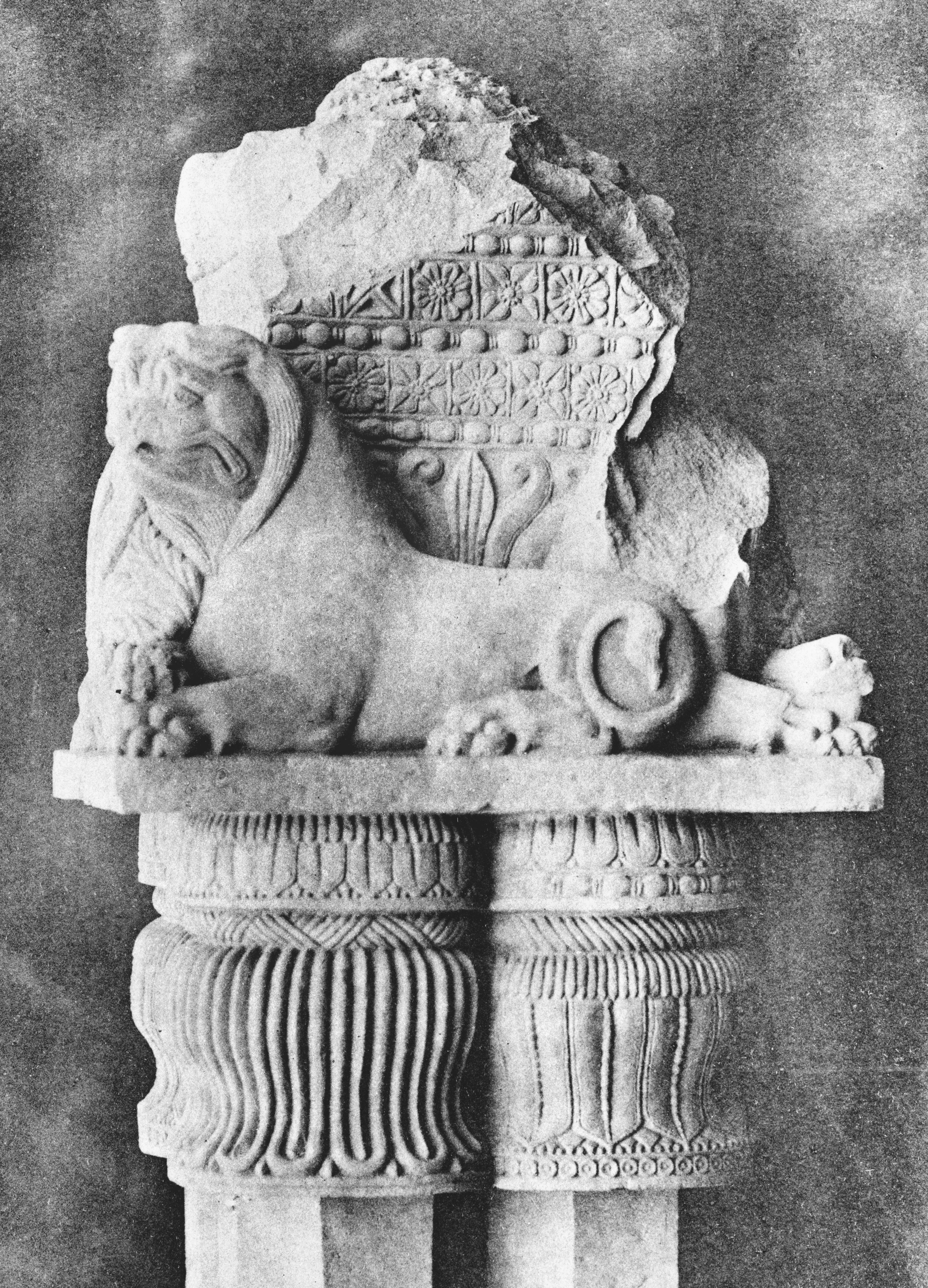 Bharhut pillar capital, 2nd century BCE. This capital is now located as the top of the right column supporting the main Gateway in the Kolkotta Museum as seen on this modern photograph: . Another frontal view Front and left side view. Back view. The capital has a trapeizoid shape and is decorated on all sides. It has many similarities with other Indian and Hellenistic capitals. Extrapolated restoration. To be compared with anta capital design at the Erechtheum. Or the Pataliputra capital Occurence of "step pyramid" capital on a Sunga relief at Sanchi.